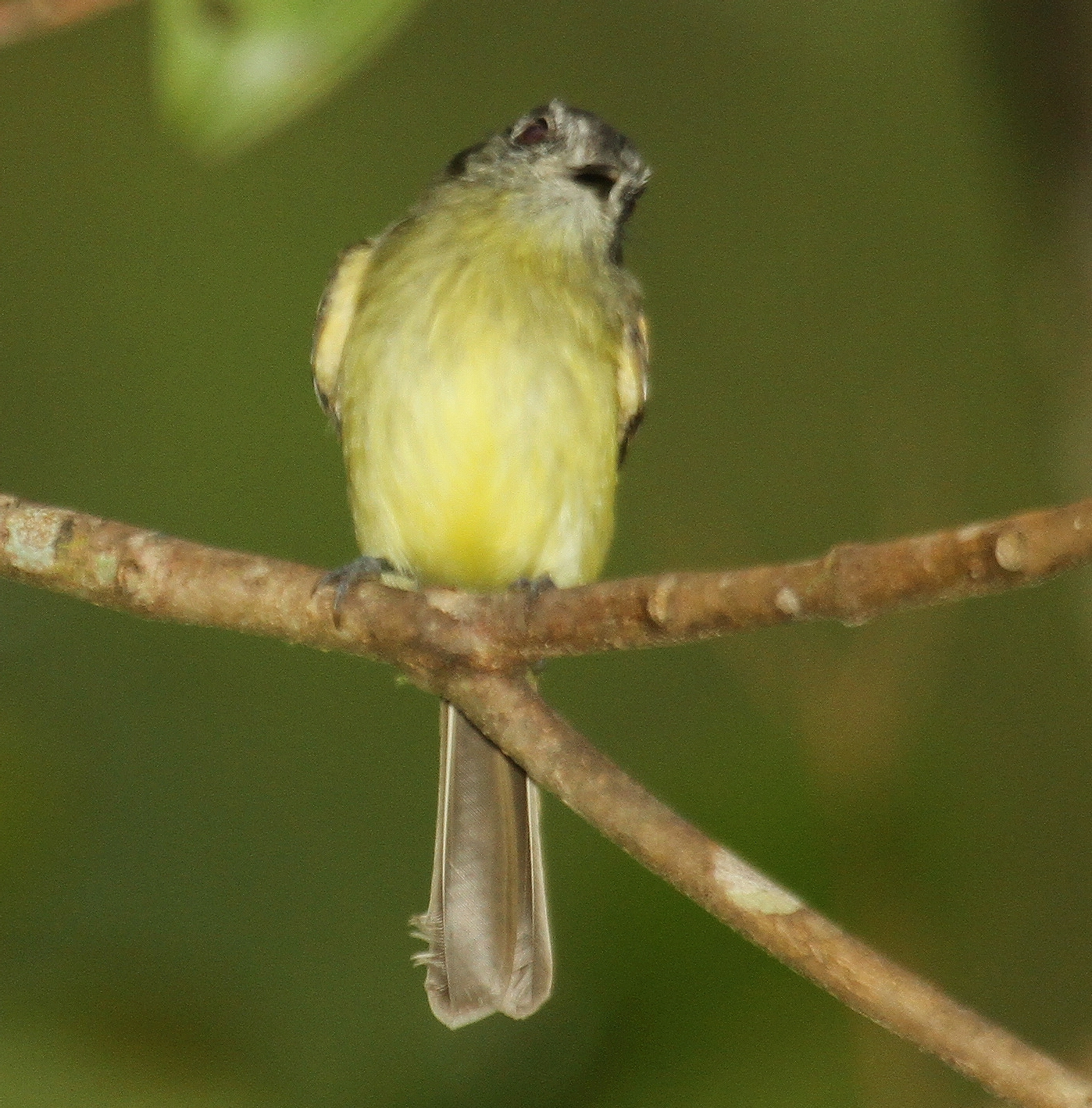 Old Zamora Road - Ecuador